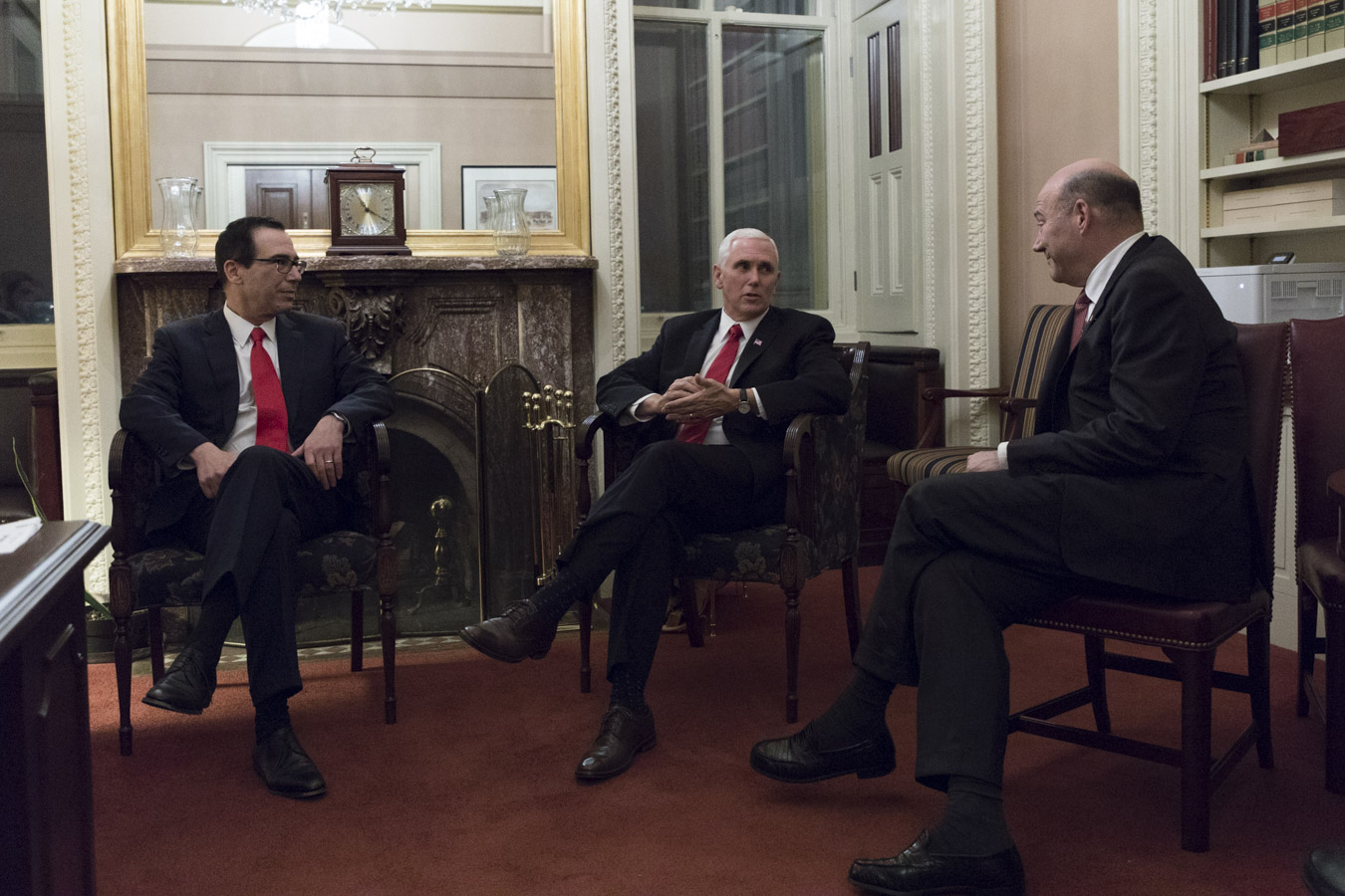 Vice President Mike Pence, U.S. Treasury Secretary Steven Mnuchin, and Director of the National Economic Council Gary Cohn watch the U.S. Senate vote on the Tax Reform Bill from the Vice President’s Capitol Hill Office | December 19, 2017 (Official White House Photo by D. Myles Cullen)